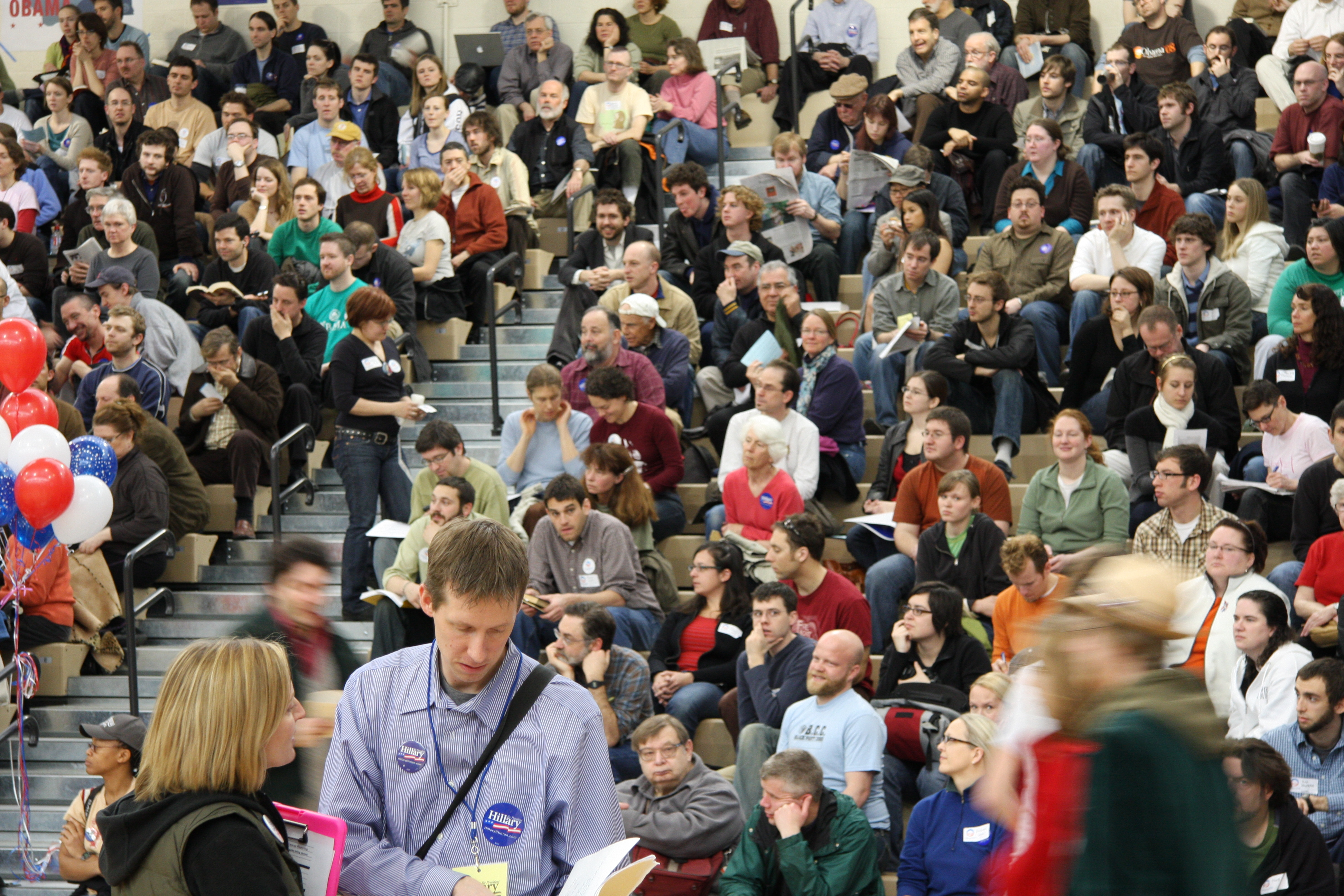 A volunteer answers a question at Washington State's 43rd Legislative District Democratic Caucus, Garfield High School "in exile" at the former Lincoln High School, Wallingford, Seattle, Washington